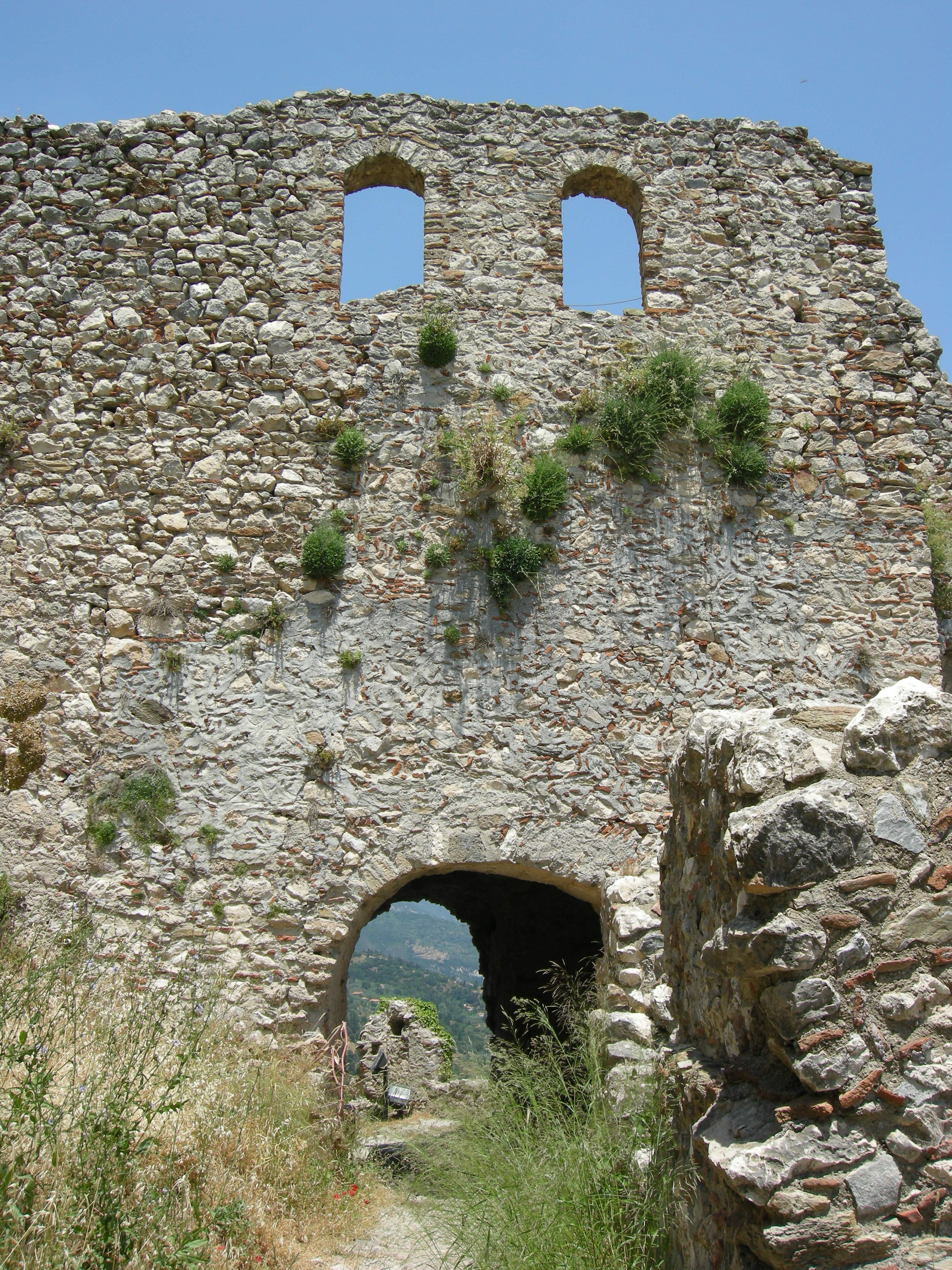 Castle of mystra